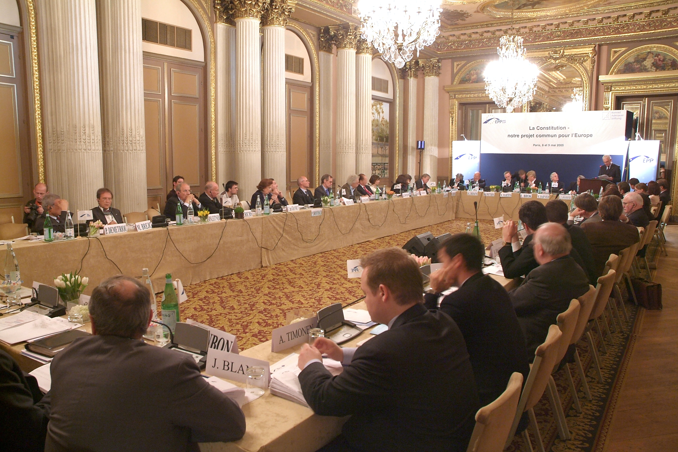 EPP debates on EU Constitution - Paris 8-9 March 2005